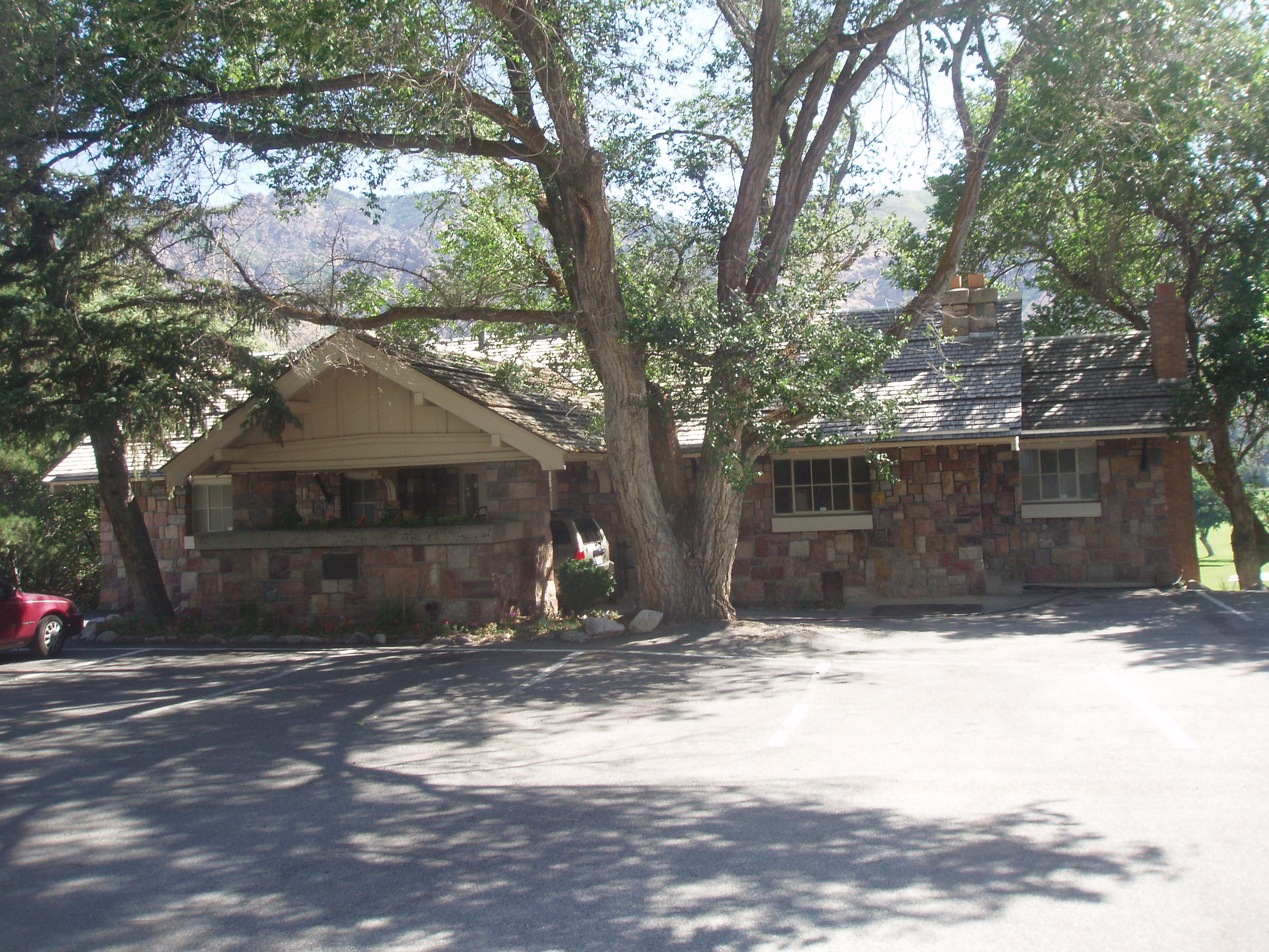 The El Monte Golf Course Clubhouse, built 1934–1935 as a Federal Emergency Relief Administration project, is a historic building in Ogden, Utah, United States.